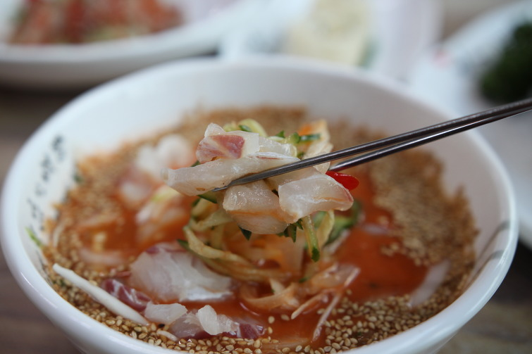 mulhoe (cold raw fish soup)